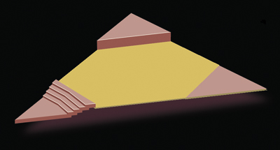 Overview of the Homomonument in Amsterdam